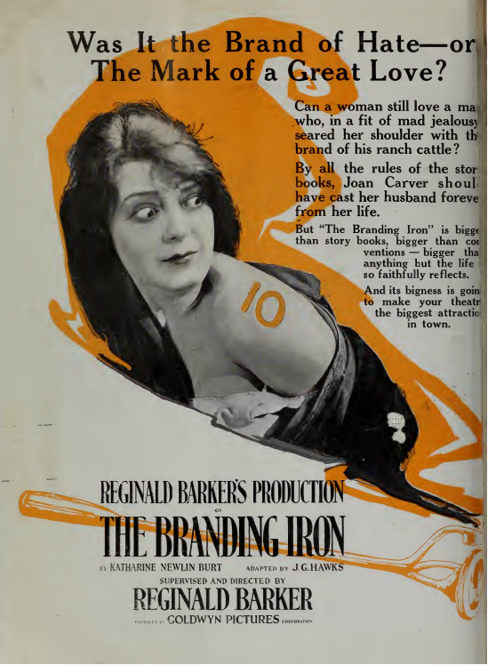 Ad for the film The Branding Iron (1920) directed by Reginald Barker